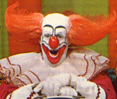 Postcard photo of the main cast of Chicago's Bozo's Circus. From left: Ringmaster Ned (Ned Locke), Mr. Bob (bandleader Bob Trendler), Bozo (Bob Bell), Oliver O. Oliver (Ray Rayner), Sandy (Don Sandburg).